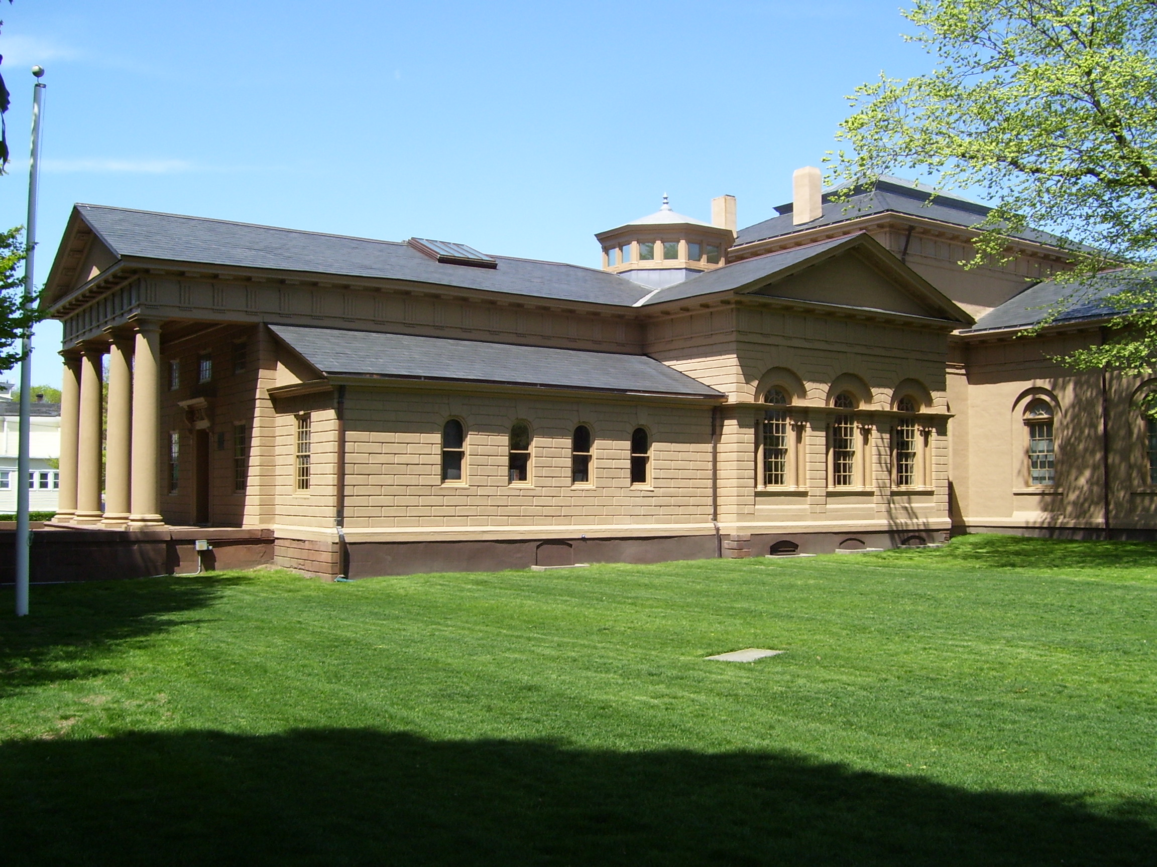 The Redwood Library in Newport, RI by me in 2008